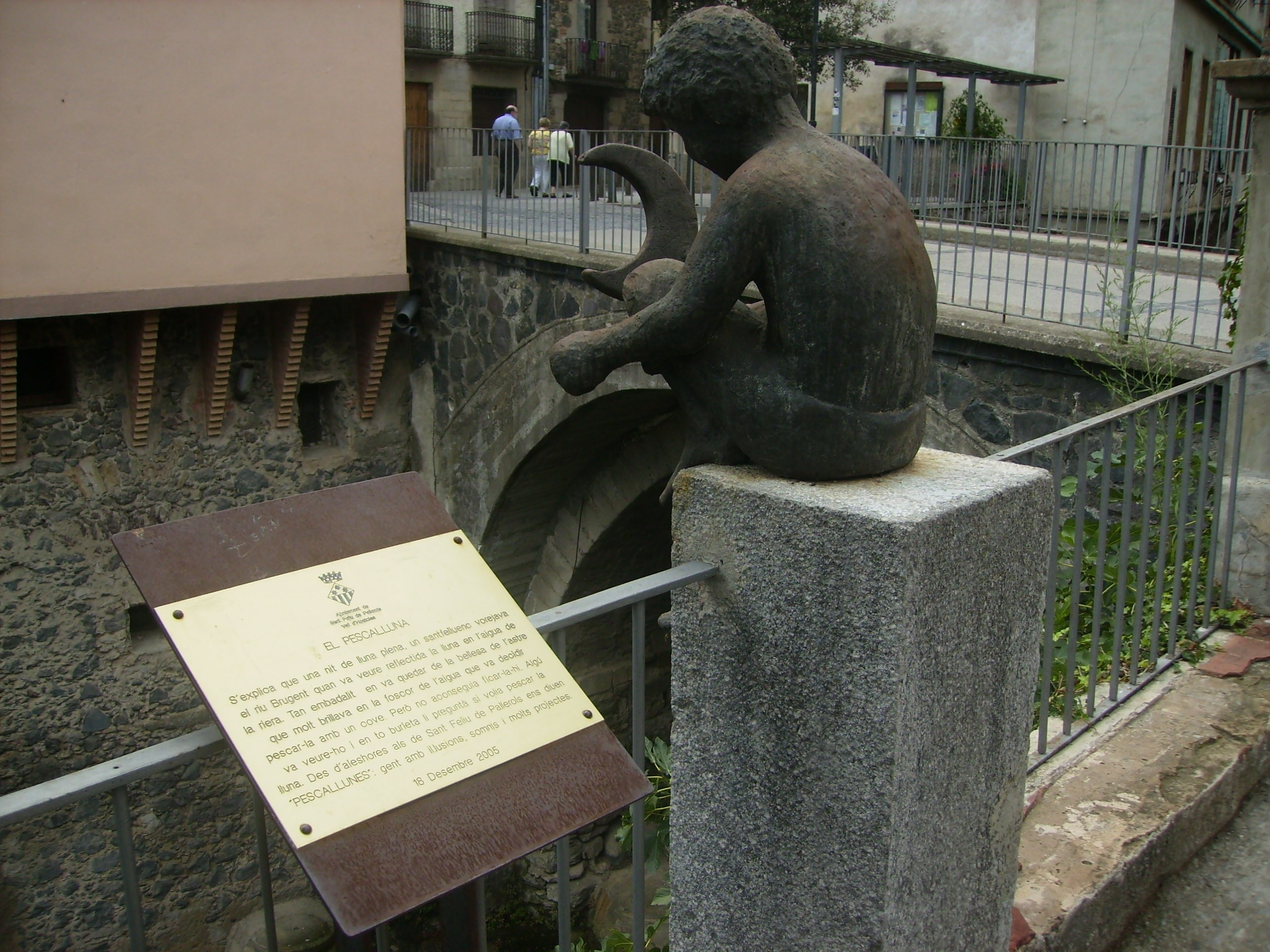 "Pescallunes" sculpture in Sant Feliu de Pallerols, la Garrotxa, Catalonia.